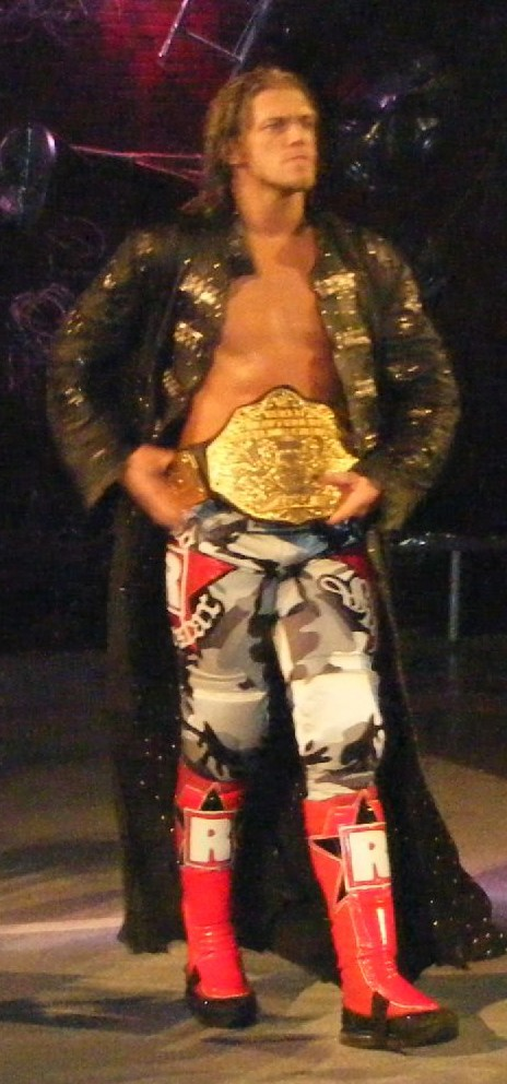 Pro wrestler Edge at WWE One Night Stand 2007.